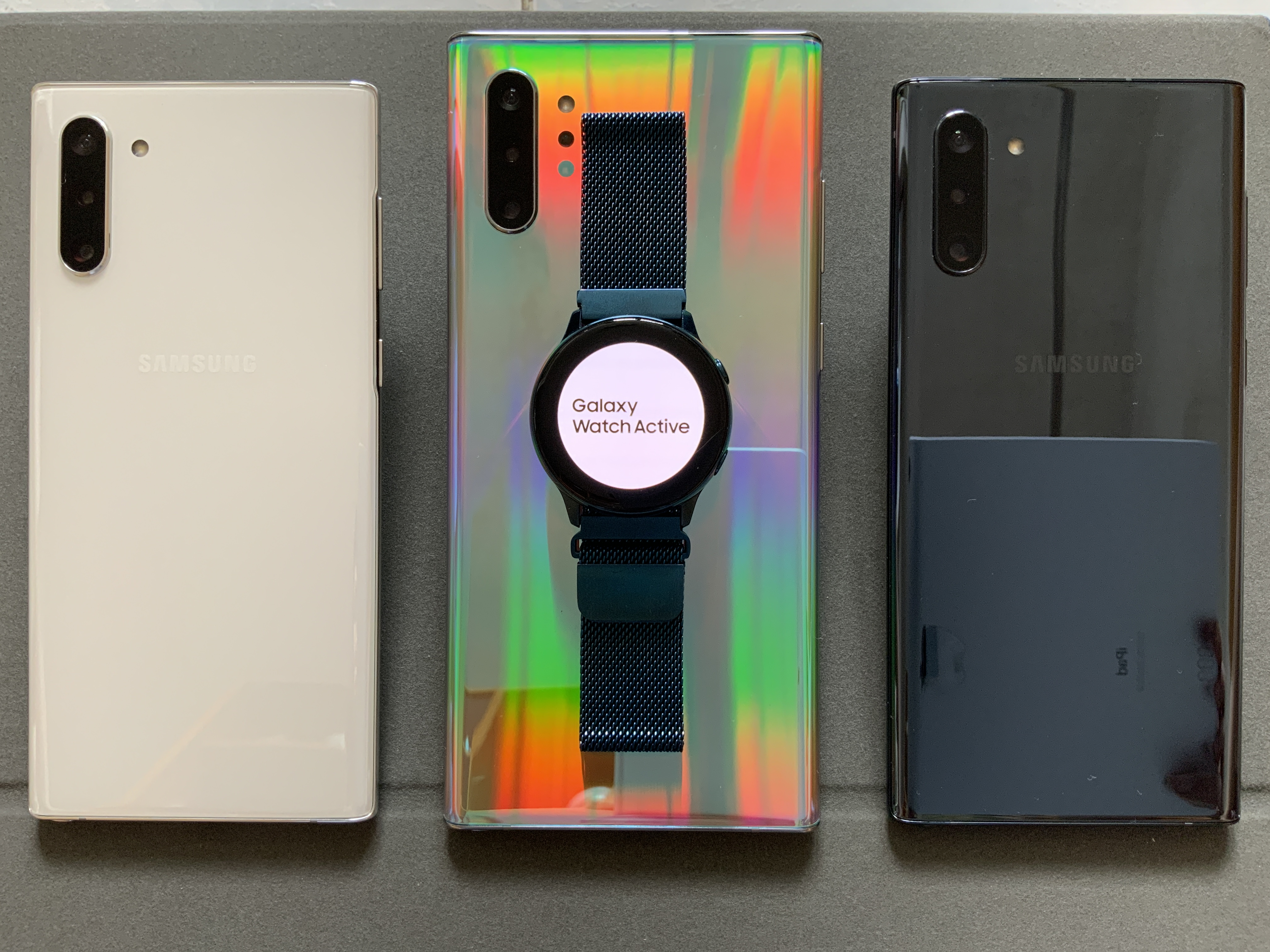 SAMSUNG Galaxy Note10 SAMSUNG Galaxy Note10 5G SAMSUNG Galaxy Note10+ SAMSUNG Galaxy Note10+ 5G